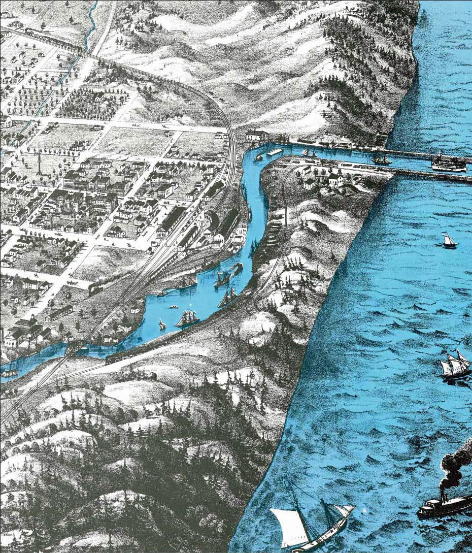 Partial rendering of artist's sketch of Michigan City, Indiana harbor - mouth of Trail Creek.